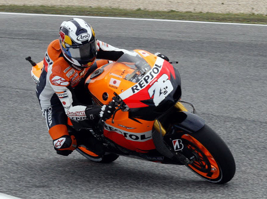 Dani Pedrosa 2011 Estoril